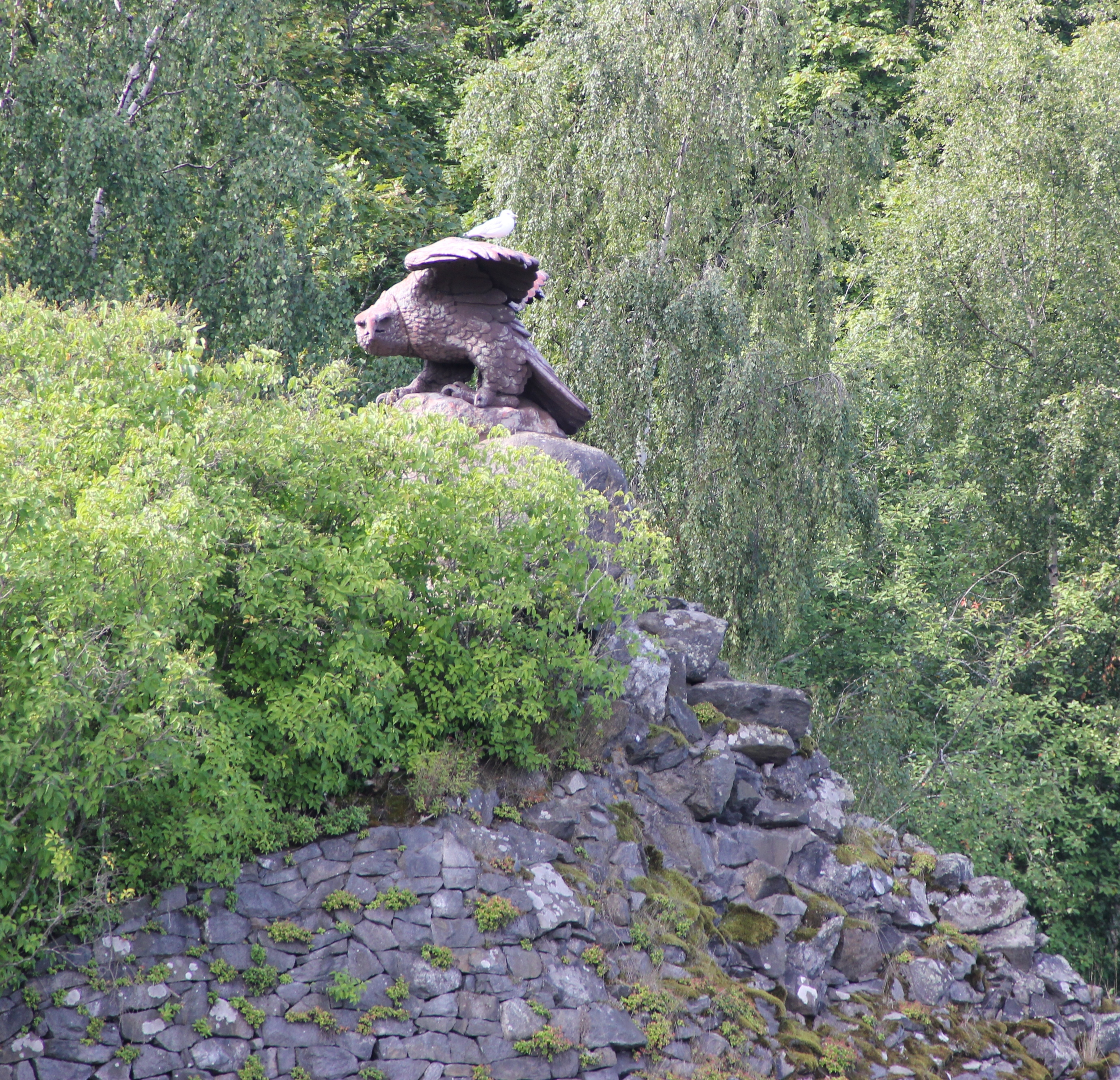 Monument on Kotkankallio, Tampere, Finland, by the Russian sculptor Chopin in 1830's in the memory of the visit of Alexander I